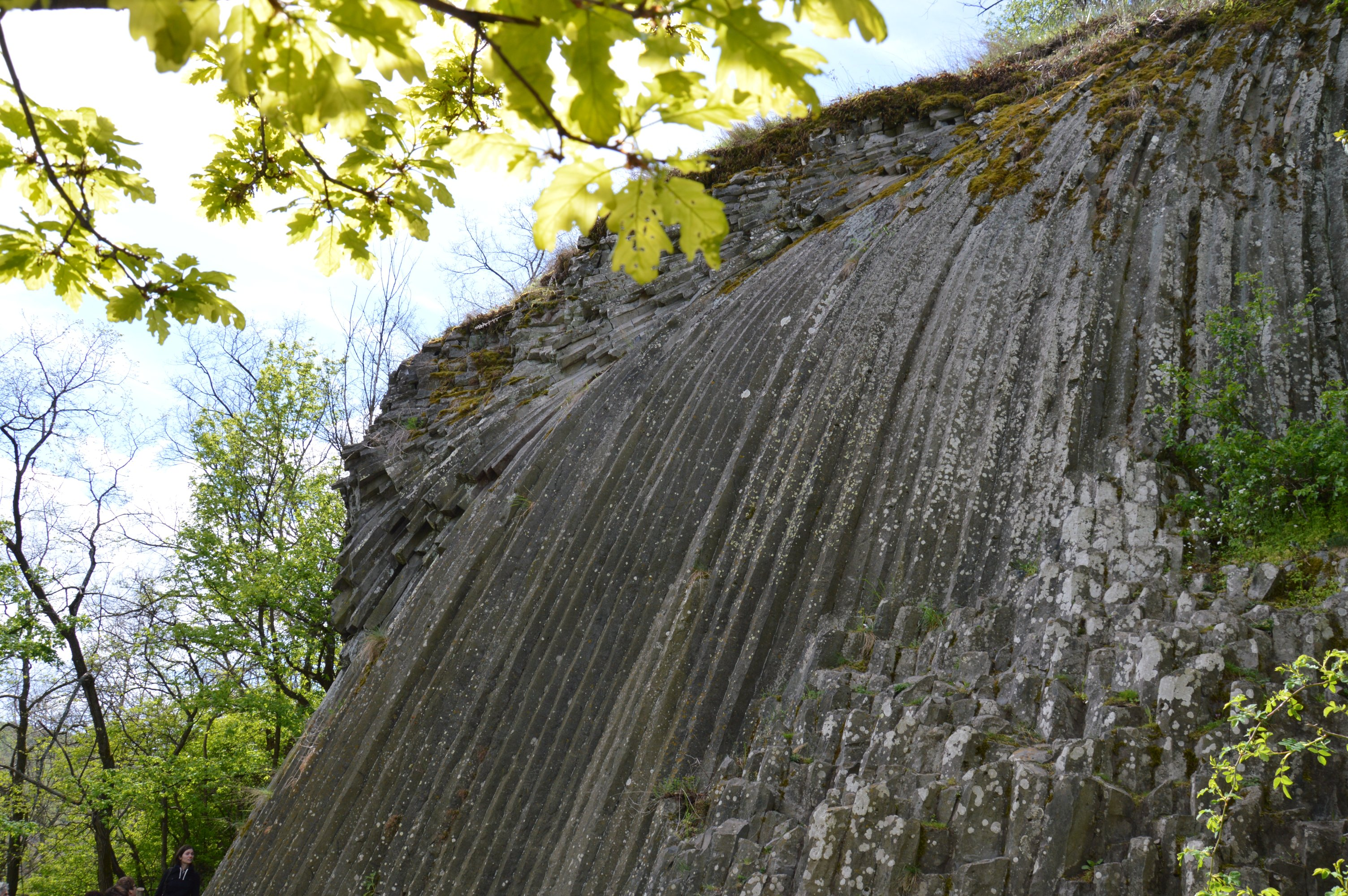 Basalt columns, (Slovakia)